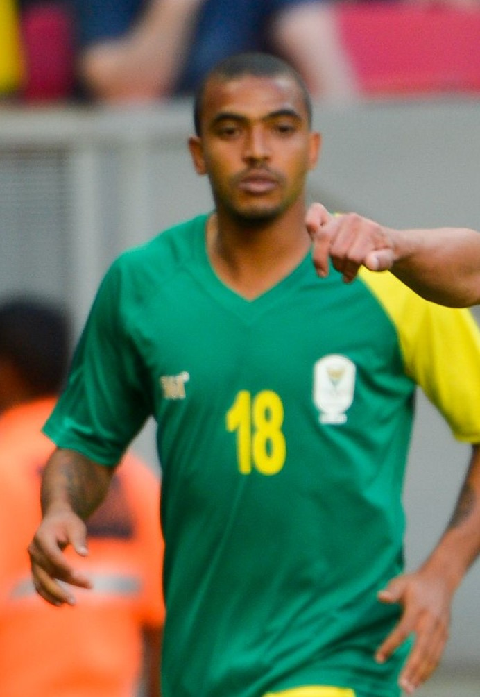 Brasília - Futebol masculino da seleção brasileira, deu o seu pontapé inicial na Olimpíada Rio 2016, em uma partida contra a África do Sul, no Estádio Mané Garrincha (Marcelo Camargo/Agência Brasil)